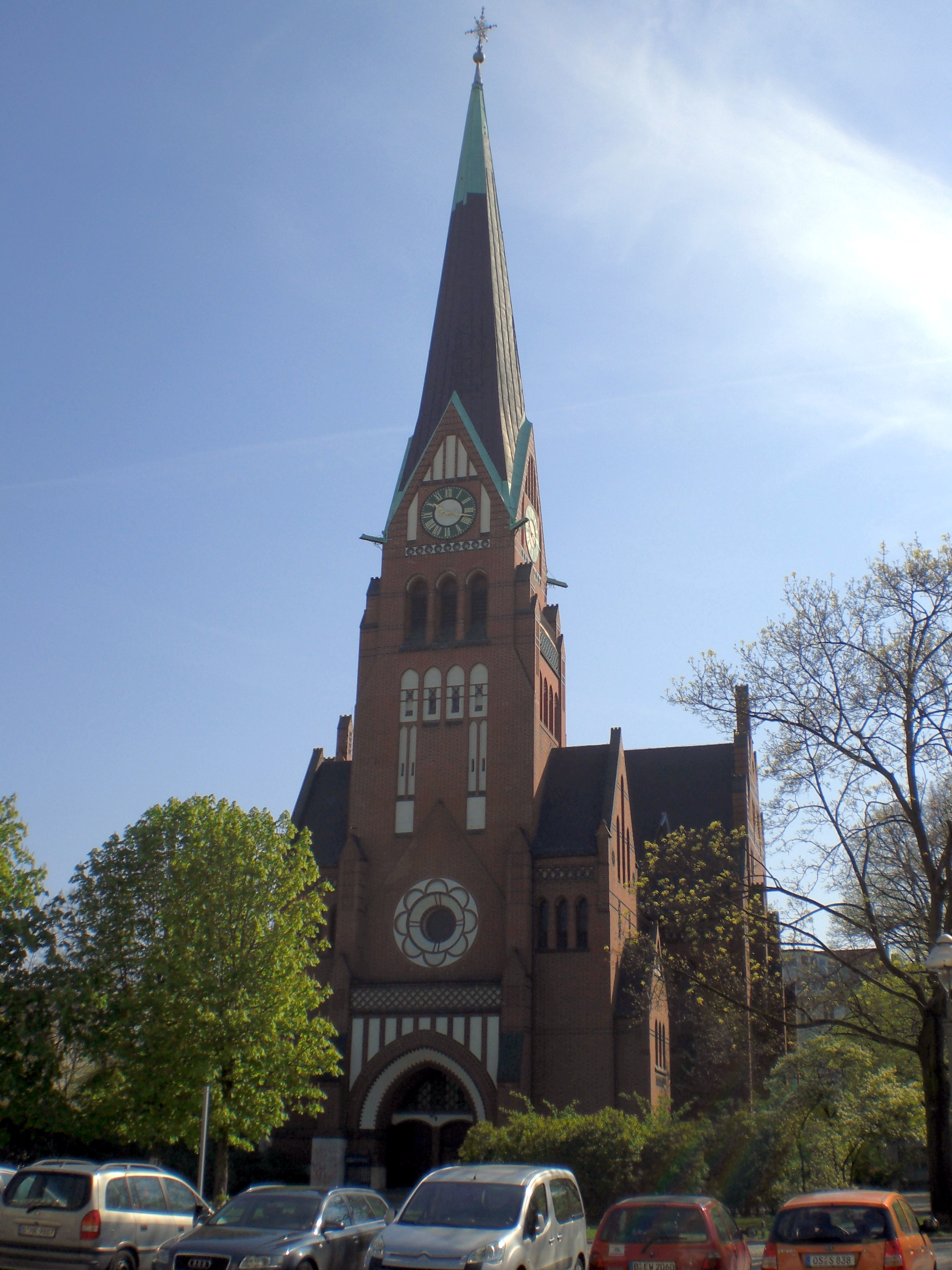 Berlin-Charlottenburg Trinitatis-Kirche